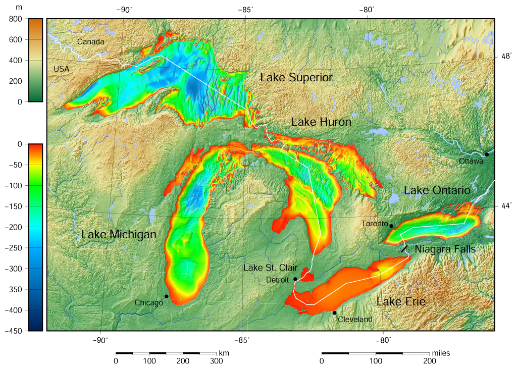 Great Lakes bathymetry and surrounding area shaded relief map. Lakes are contoured with interval 100 m. Lake Superior is incomplete. The map was created using the Generic Mapping Tools, GMT, version 5.1.1.